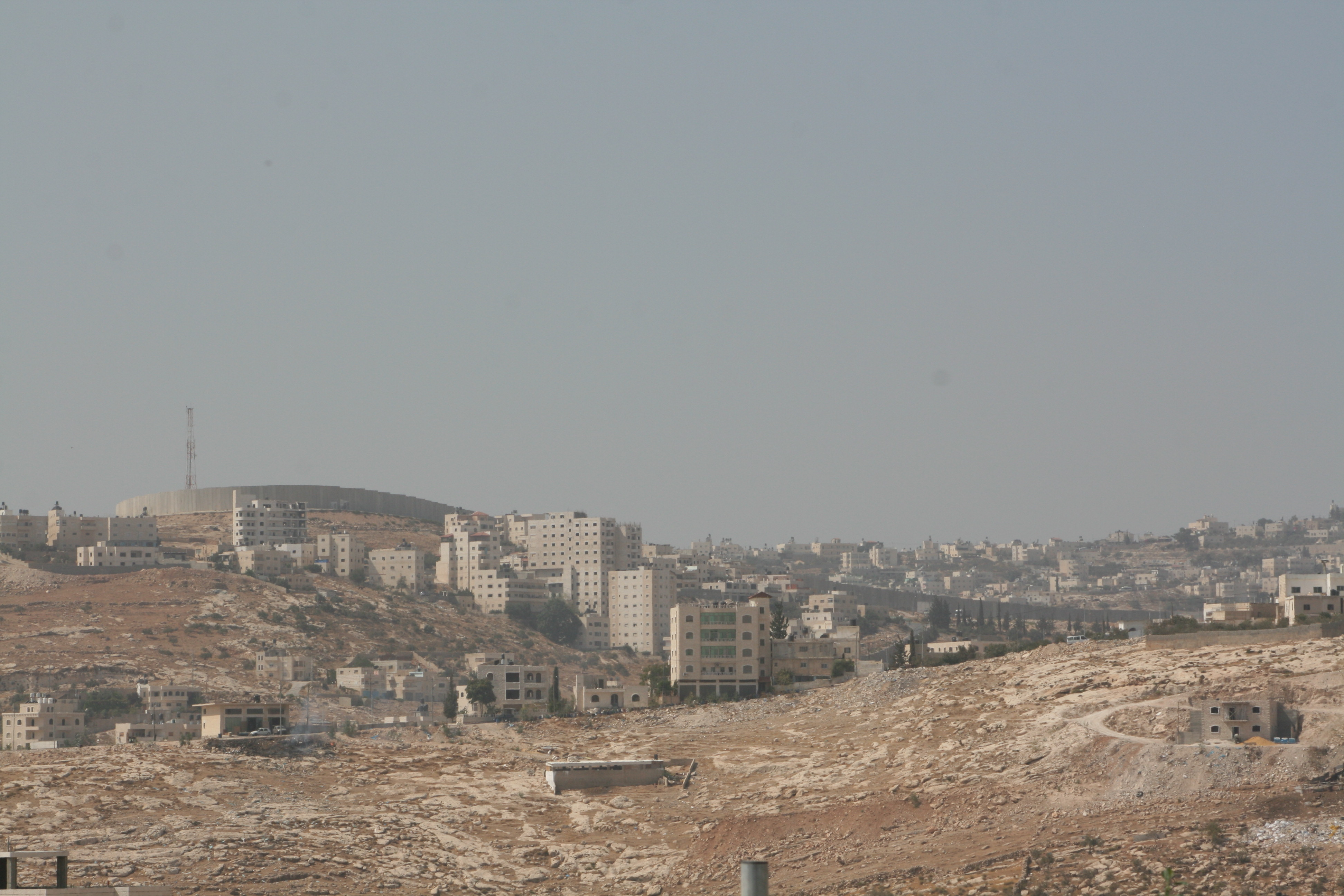 Jerusalem, Israeli West Bank Barrier near Sawahera al-Sharqiya